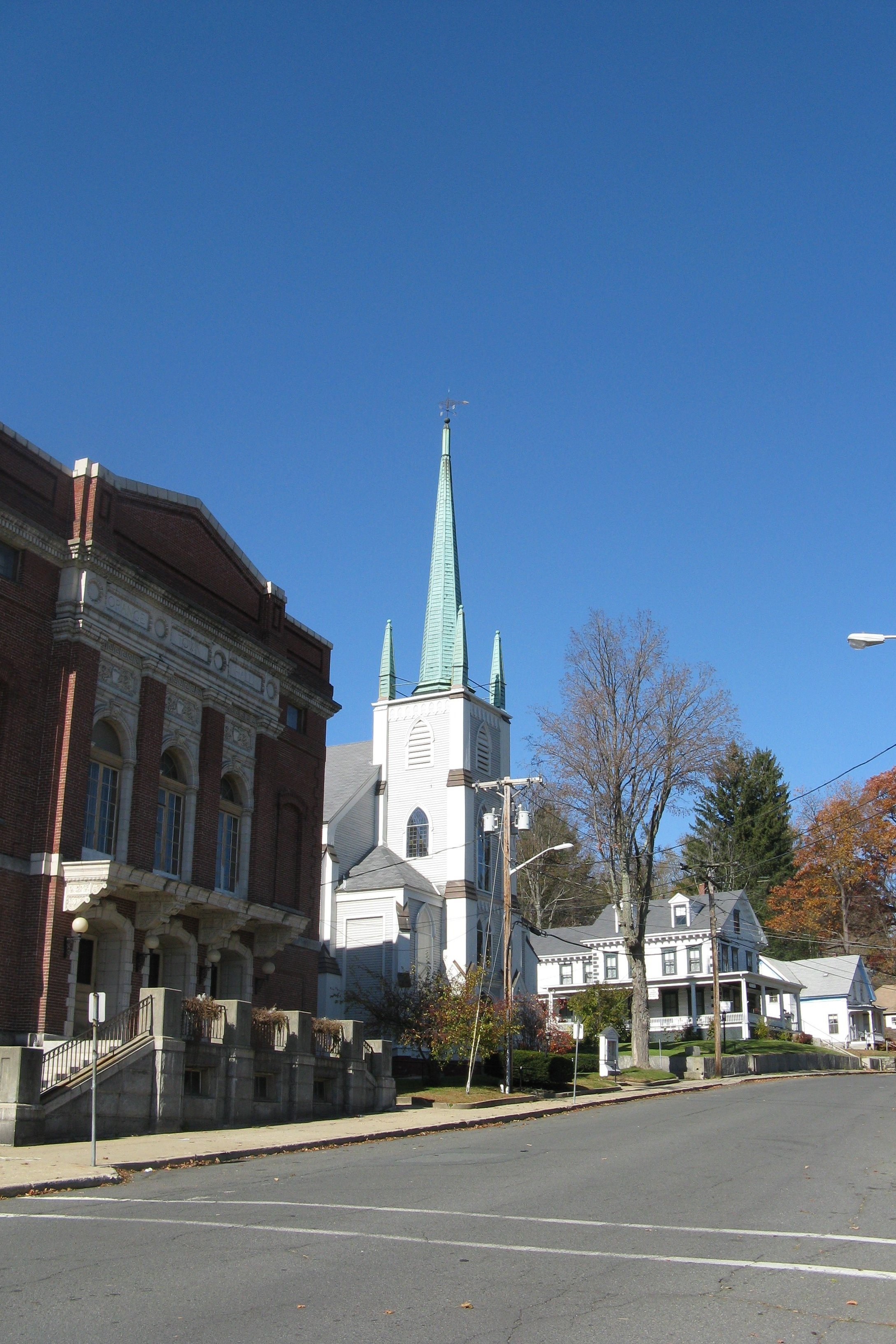 Town Hall and Universalist Church, Orange Massachusetts